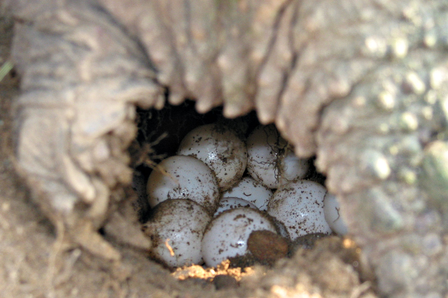 Closeup of turtle eggs deposited by a female snapping turtle (Chelydra serpentina).